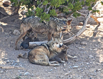 Mexican wolves of Coronado pack at Sevilleta Wolf Management Facility.